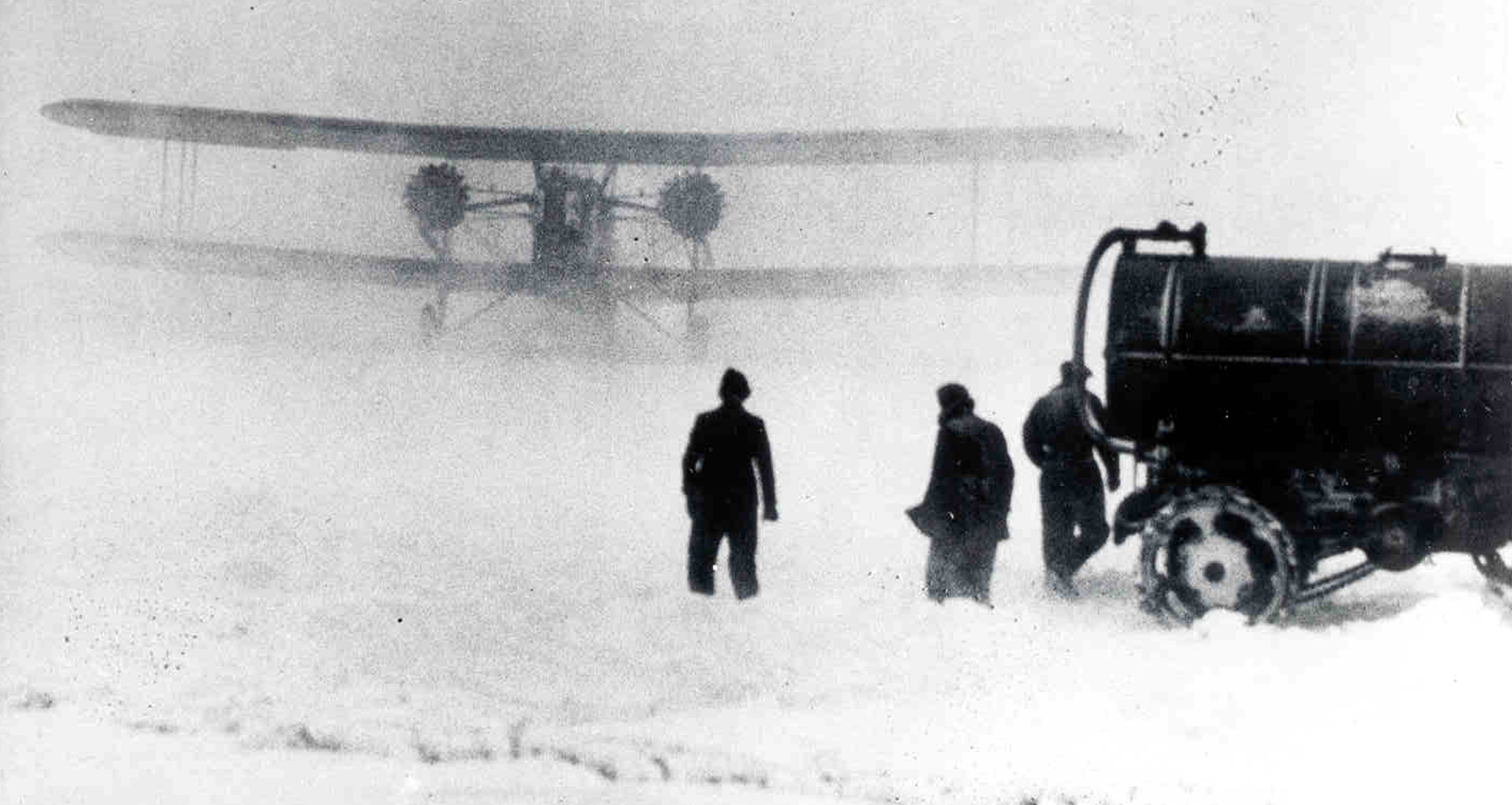 Date: c.1934 (not 1920) Object number: A.2010-4 Medium: paper; photo-emulsion Dimensions (Unframed): 8" x 10" Description: Keystone B-6 (not De Havilland), of the US Army Air Corps. In their drive to open up a transcontinental flyway, postal officials were constantly seeking better, faster aircraft for their pilots to use. When a determination was made to reconfigure the de Havilland aircraft by adding a second engine, postal officials believed they had found their airplane. The first trips were the only successful ones for this airplane. Soon reports were flooding Air Mail Service headquarters of crashes and mechanical problems with the airplanes. After a series of fatal crashes the twin de Havillands (sic) were removed from service. A fuel truck and three unidentified men are in the foreground of this airmail plane in the snow. Photographer: Unknown Place: United States of America Collection Description: Transportation/Aviation Credit line: National Postal Museum, Curatorial Photographic Collection Photographer: Unknown Repository: National Postal Museum, Curatorial Photographic Collection View more collections from the Smithsonian Institution.